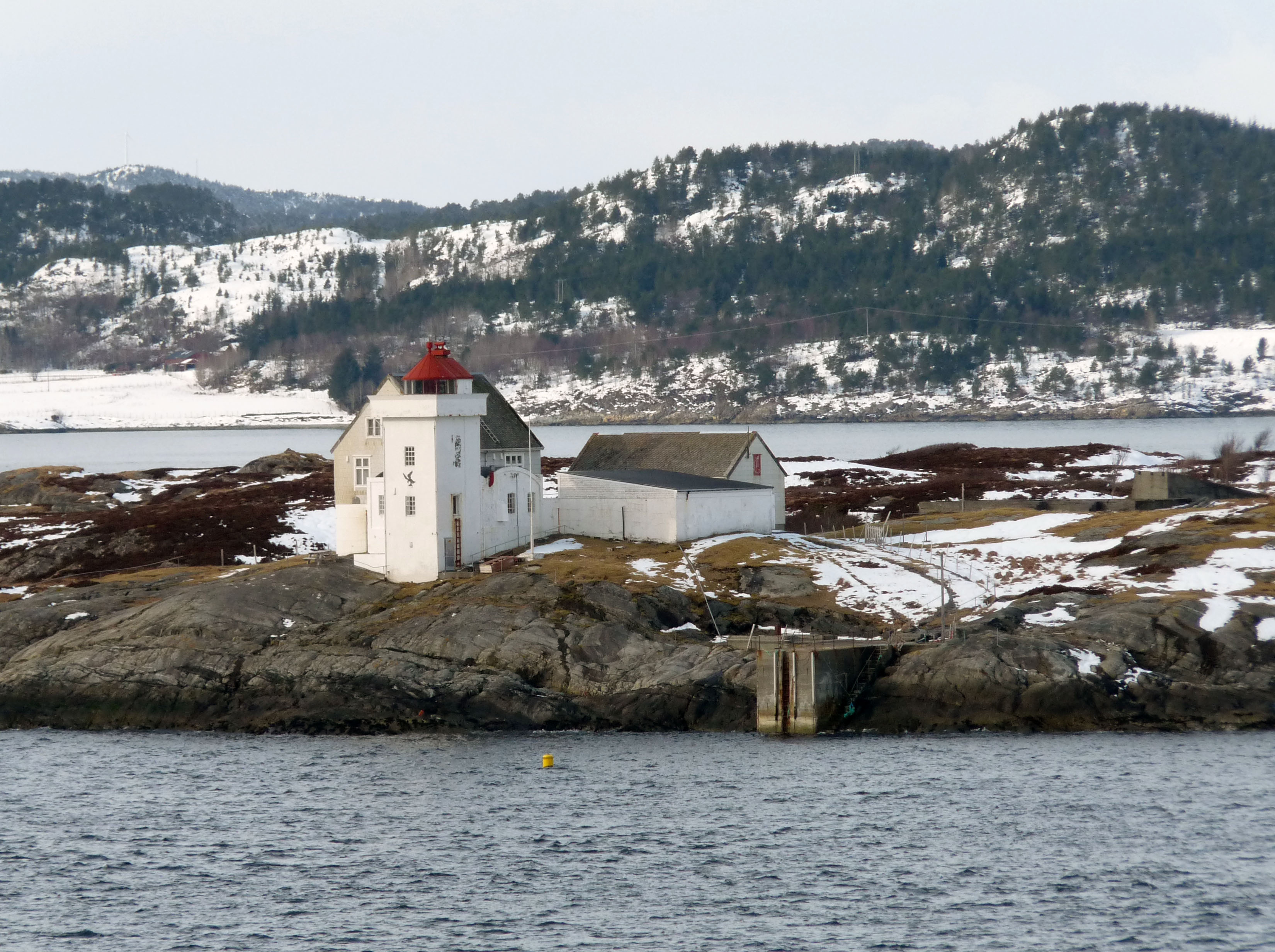 06 Hitra Island Fyr